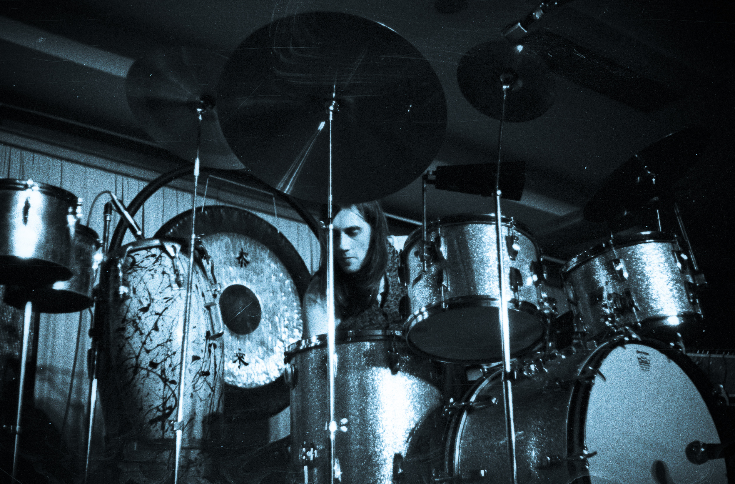 Mick Fleetwood, Fleetwood Mac, March 18, 1970 Niedersachsenhalle, Hannover, Germany The Touring Band: Mick Fleetwood - Percussion, Peter Green - Lead Vocals/Guitar/Harmonica (left band in May), John McVie - Bass Guitar, Jeremy Spencer - Vocals/Guitar, Danny Kirwan - Vocals/Guitar